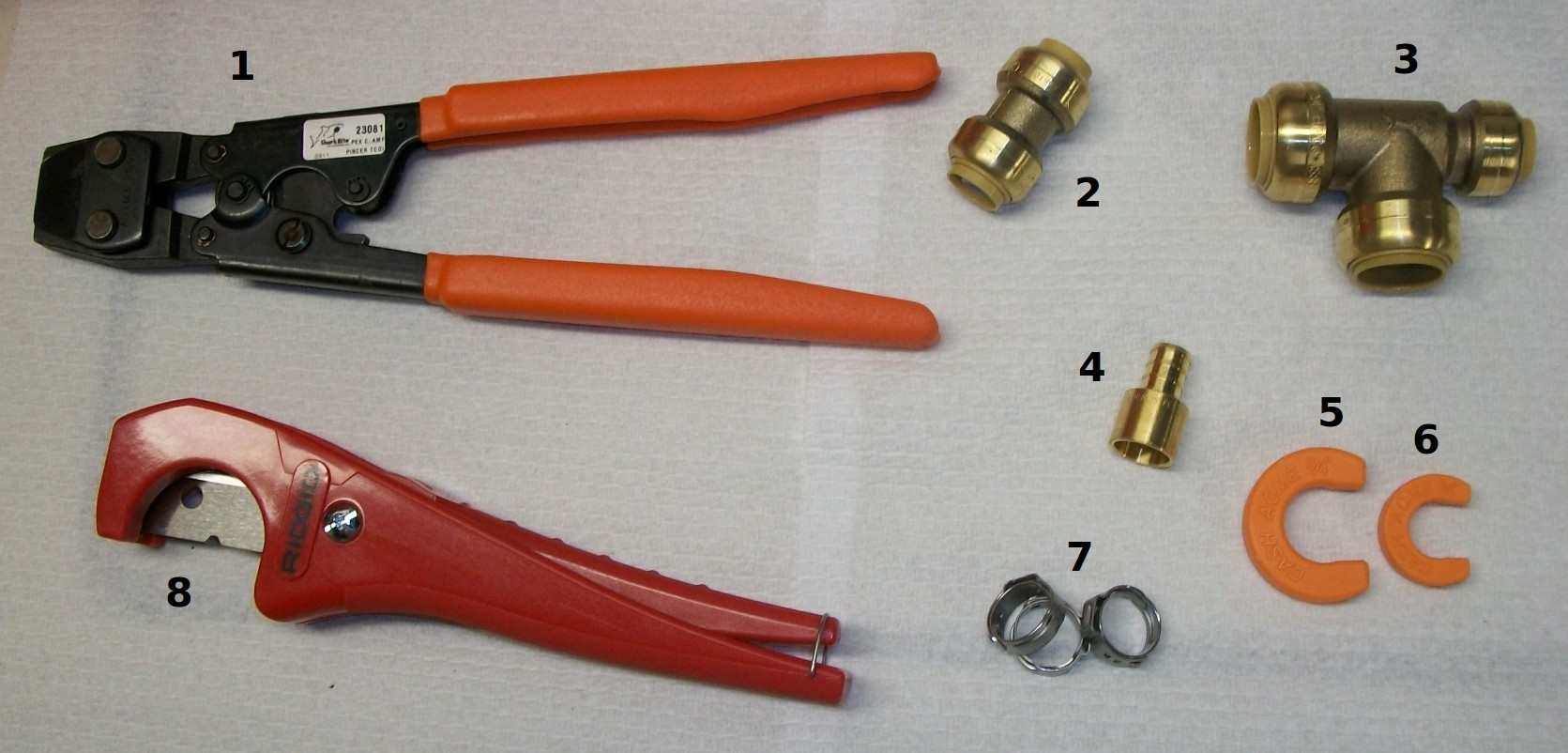 Tools and fittings used in a plumbing installation with PEX tubing. (1) Cinching tool to secure a stainless steel band (versus copper ring) during the tubing to fitting connection, (2) Compression coupling to join 1/2-inch copper pipe or PEX tubing, (3) T-joint to connect 3/4-inch to 1/2-inch pipe/tubing, (4) 1/2-inch Copper-to-PEX transition (solder-type), (5 and 6) SharkBite disconnect clips for releasing SharkBite fittings from pipe/tubing, (7) Stainless steel cinch rings for making PEX tubing connections; (8) PEX tubing cutter